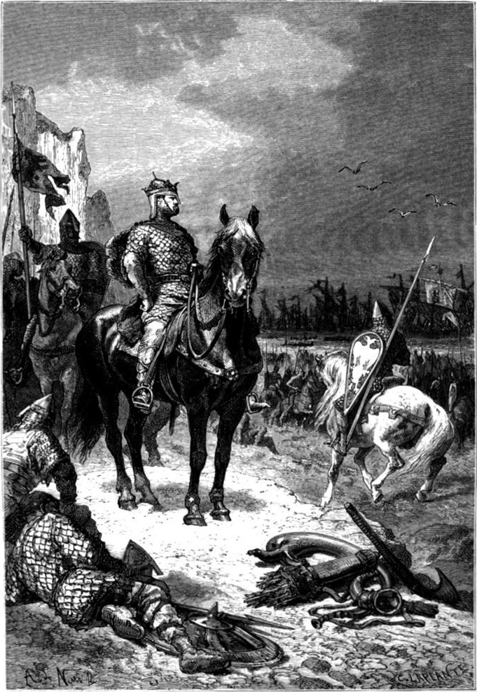 William the Conqueror landing in England (1066)